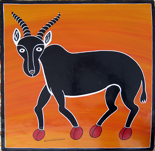 TT4784 by Daudi E. S. TingaTinga - Tingatinga art (76x76cm), Oil on canvas